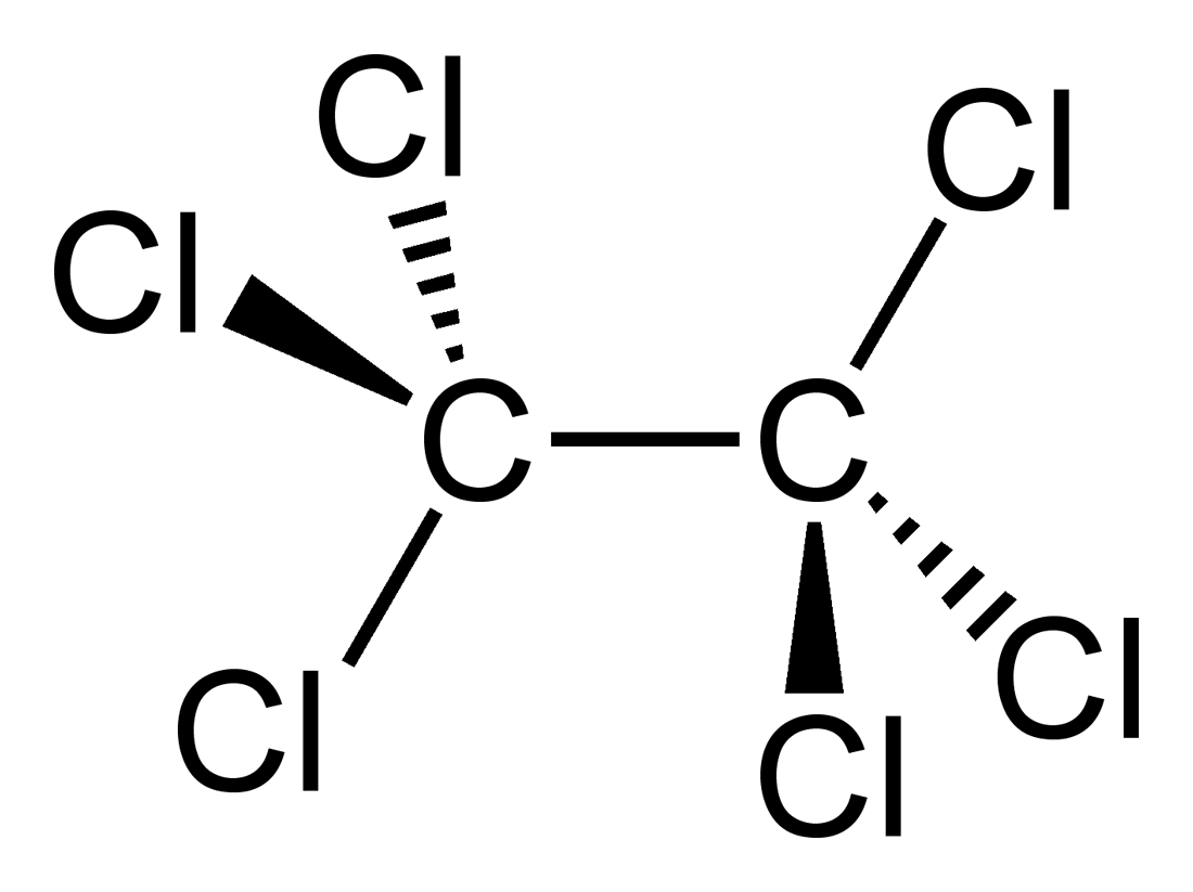 Structural formula of hexachloroethane, C2Cl6, with wedged bonds emphasising the tetrahedral carbons